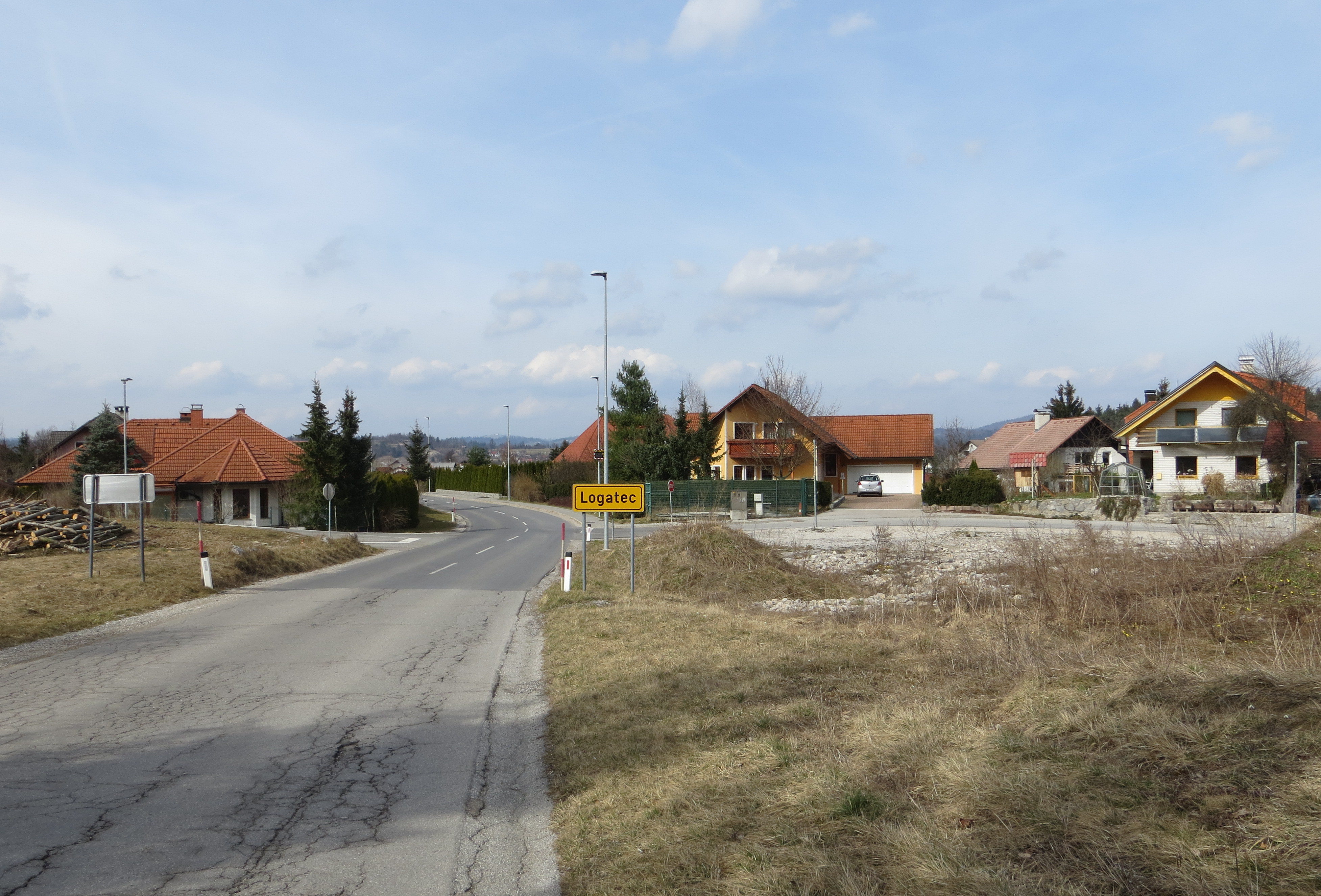 Logatec, Municipality of Logatec, Slovenia